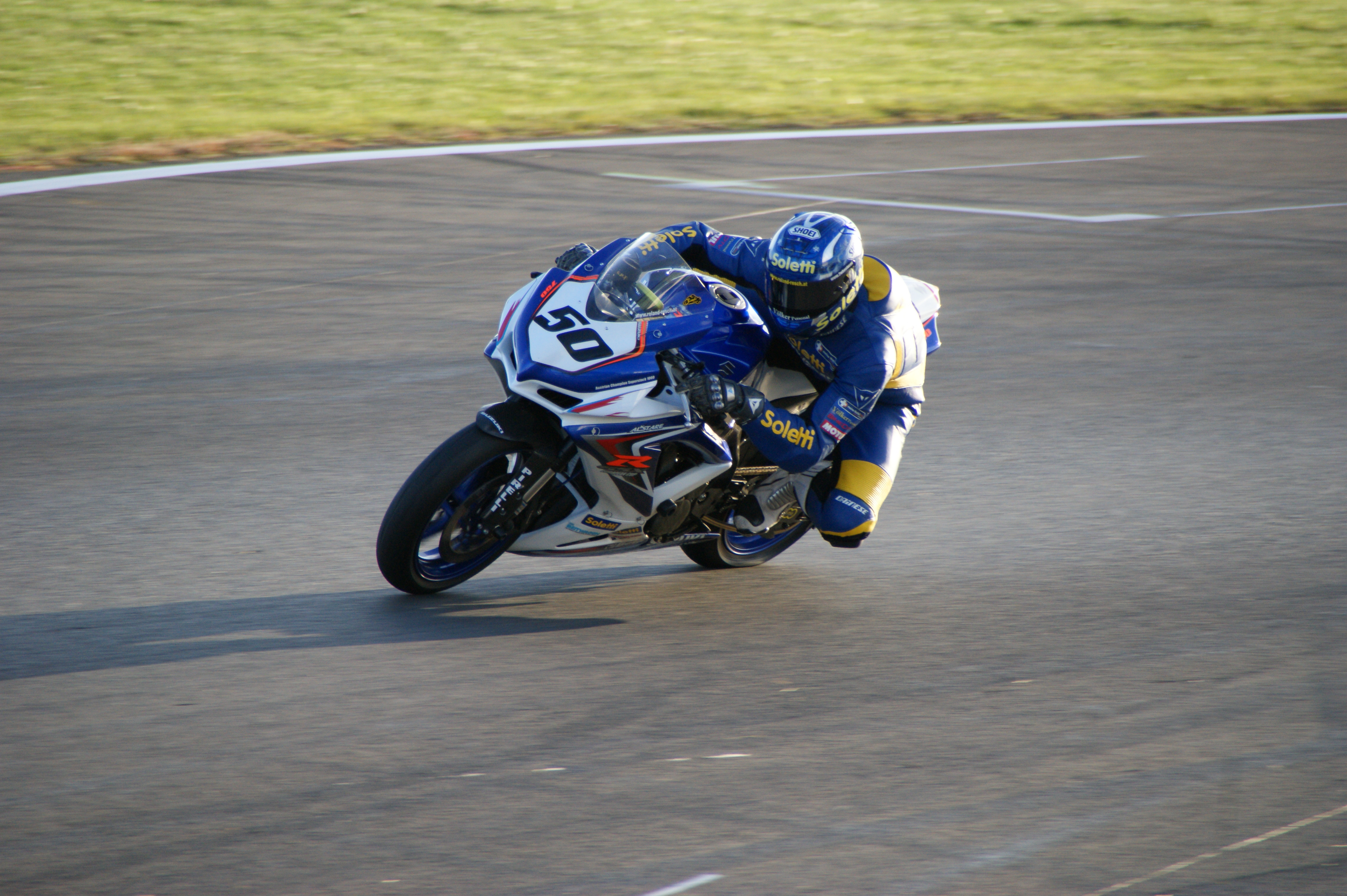 Roland Resch Austrian Motorcycle Race Driver